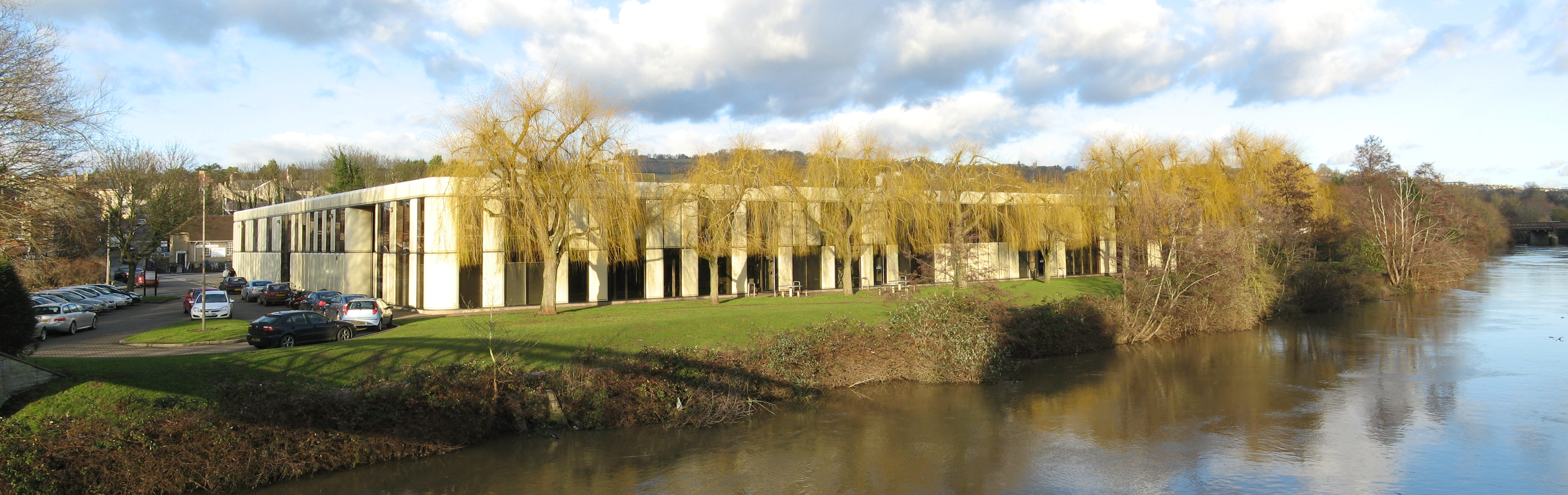 Herman Miller factory in the Locksbrook industrial area, Bath, Somerset, UK. The factory, built in 1976-7, was an early design by Nick Grimshaw and Farrell/Grimshaw Partnership using a flexible movable panel design. It won several awards, including the Financial Times Industrial Architecture Award for 1977 and the RIBA South West Award in 1978.[1][2][3][4] In 2017 it became the school of art and design of Bath Spa University.[5]